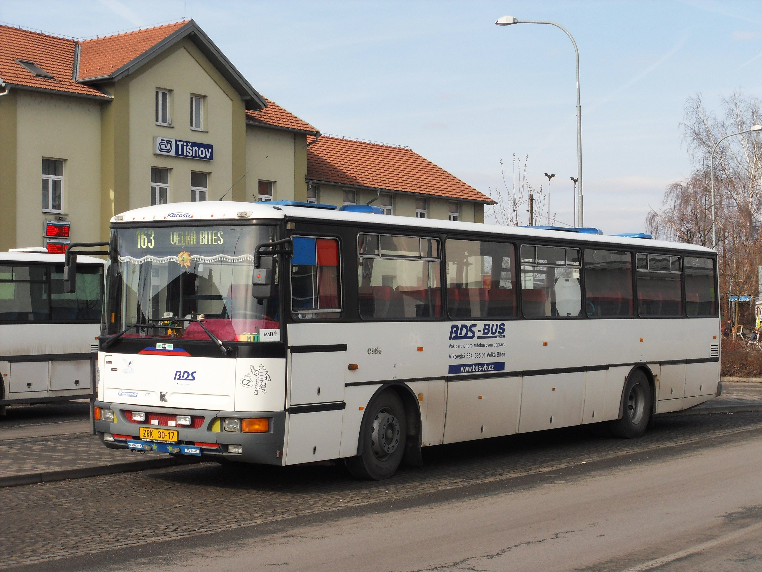 Karosa C 954 bus of BDS-BUS, Tišnov, Czech Republic